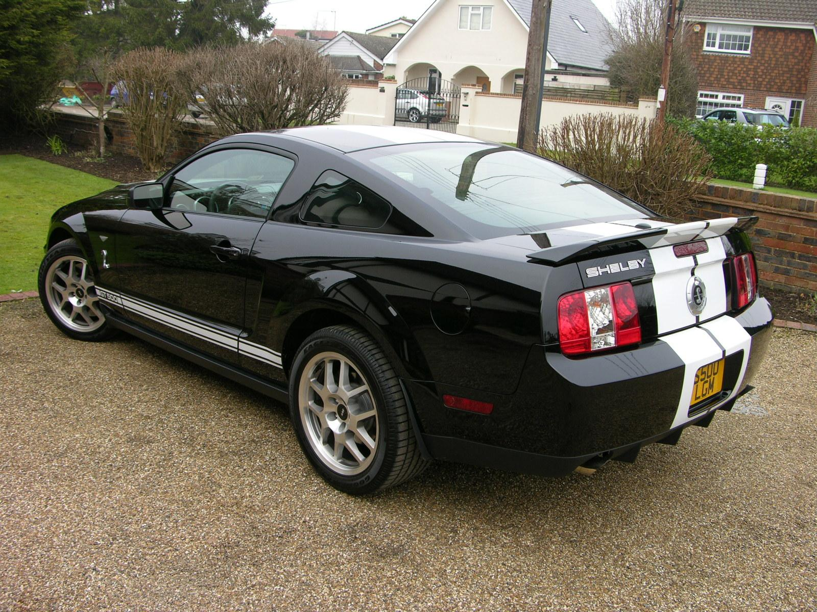 2008 Ford Mustang Shelby GT500